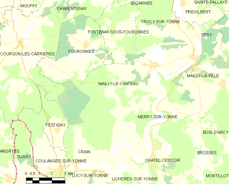 Map of French municipality Mailly-le-Château